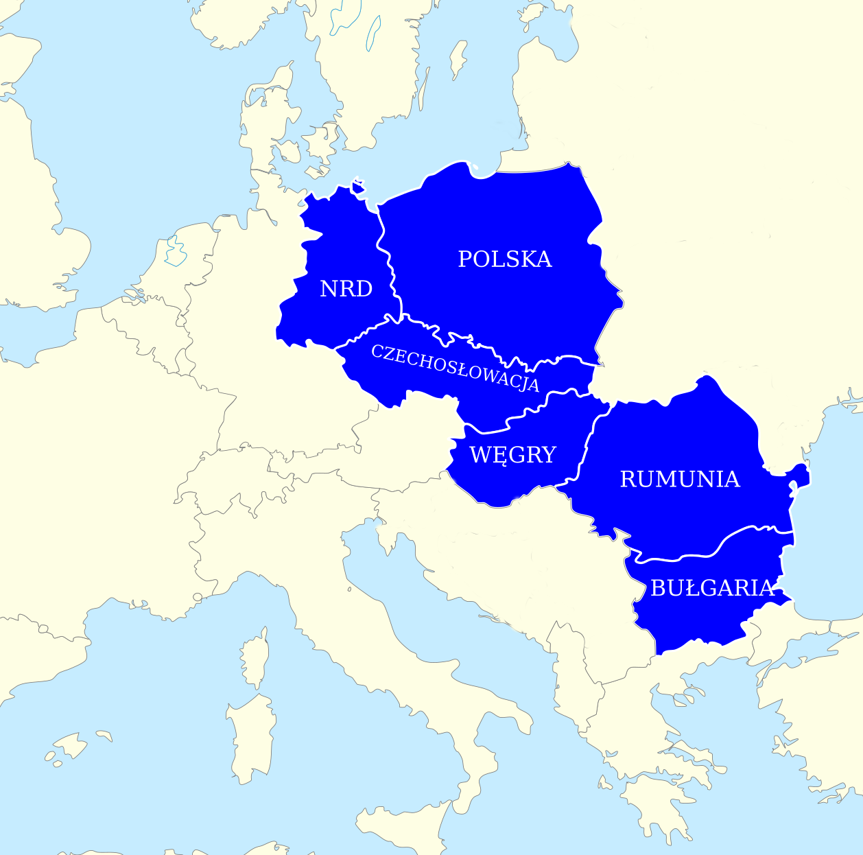 Countries which abolished communism in 1989